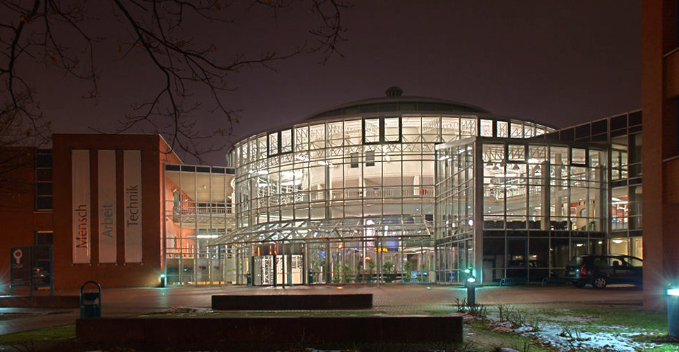 Main entrance of the "DASA"-Building in Dortmund, Germany.